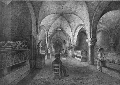 Crypt of the Cathedral in Palermo